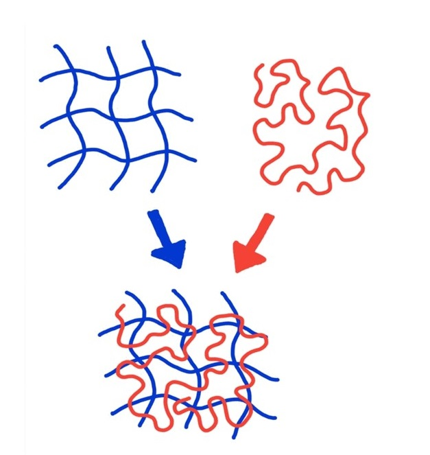 The addition of two crosslinked polymer networks.